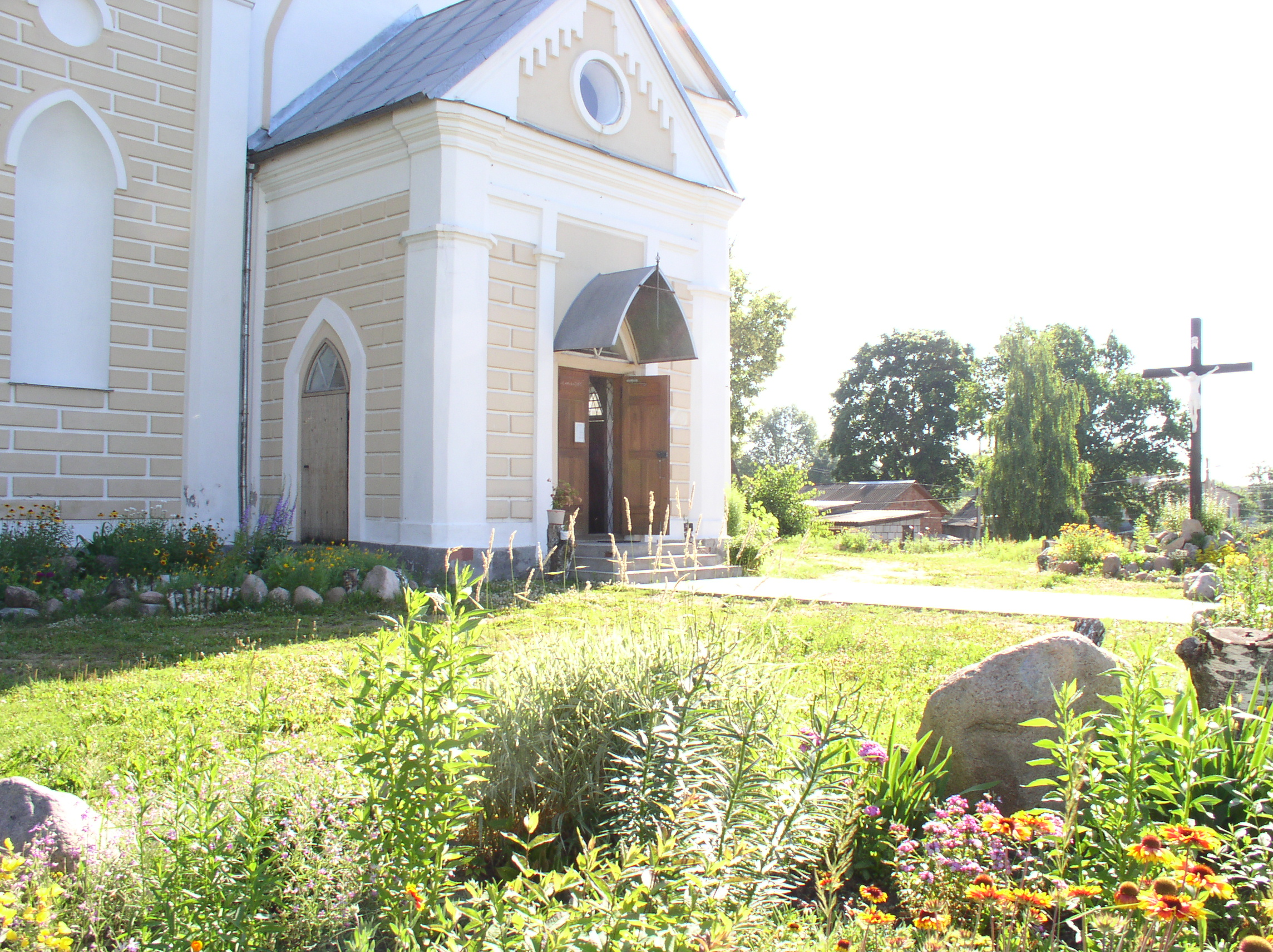 Church of Saint Anthony, Talachyn, Belarus.